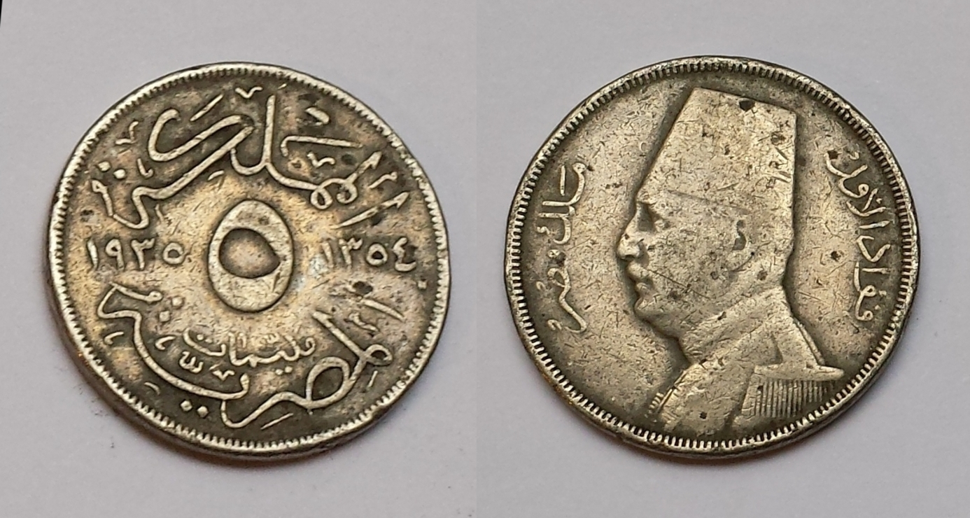 King Fuad I. - 5 Millimes Egypt 1935